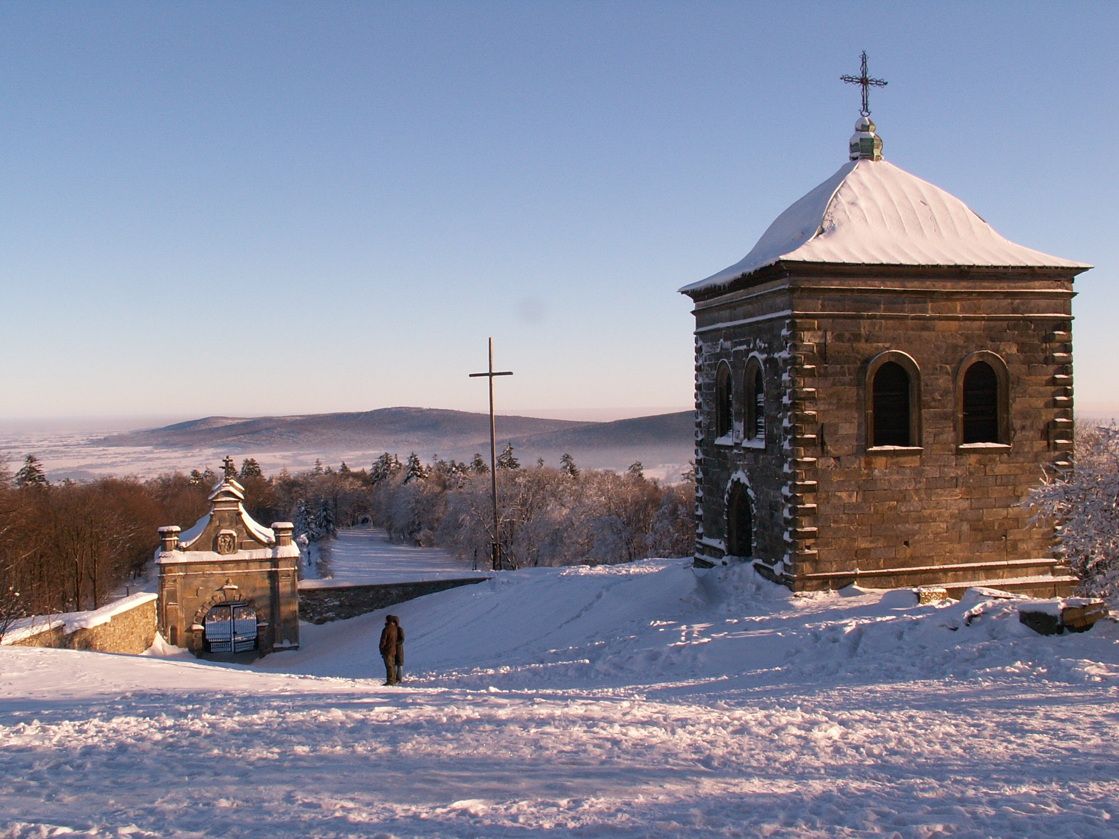 View from Święty Krzyż (Poland)